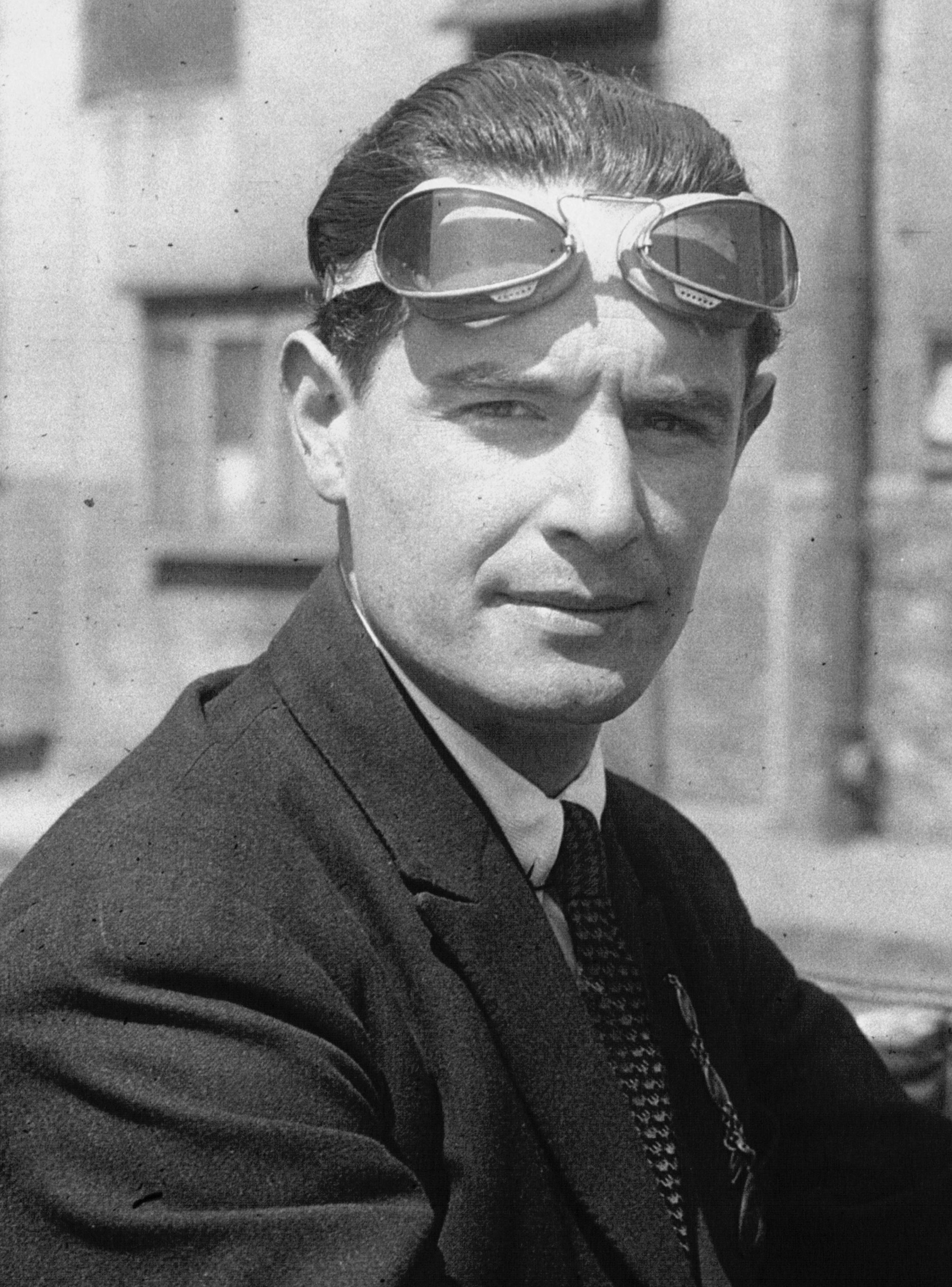 Louis Rigal in his Panhard-Levassor.